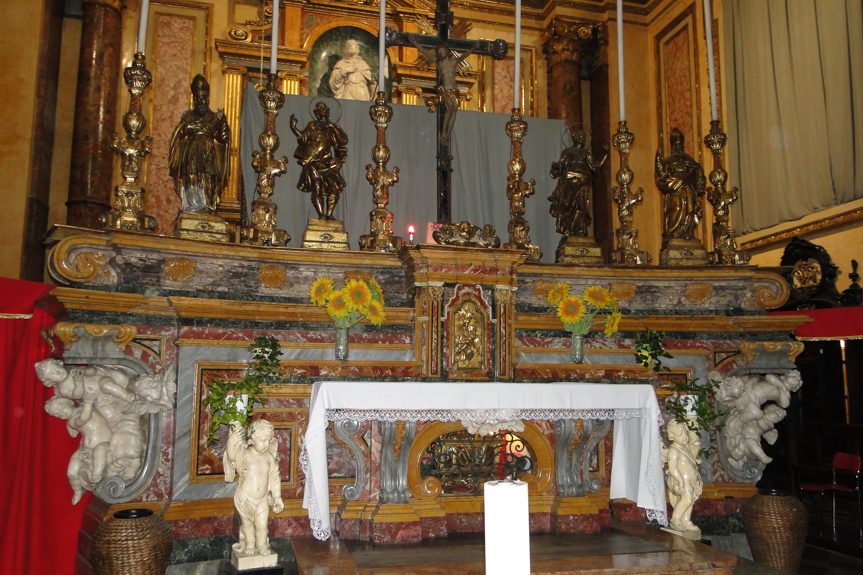 Church of San Rocco (Turin, Italy), High altar